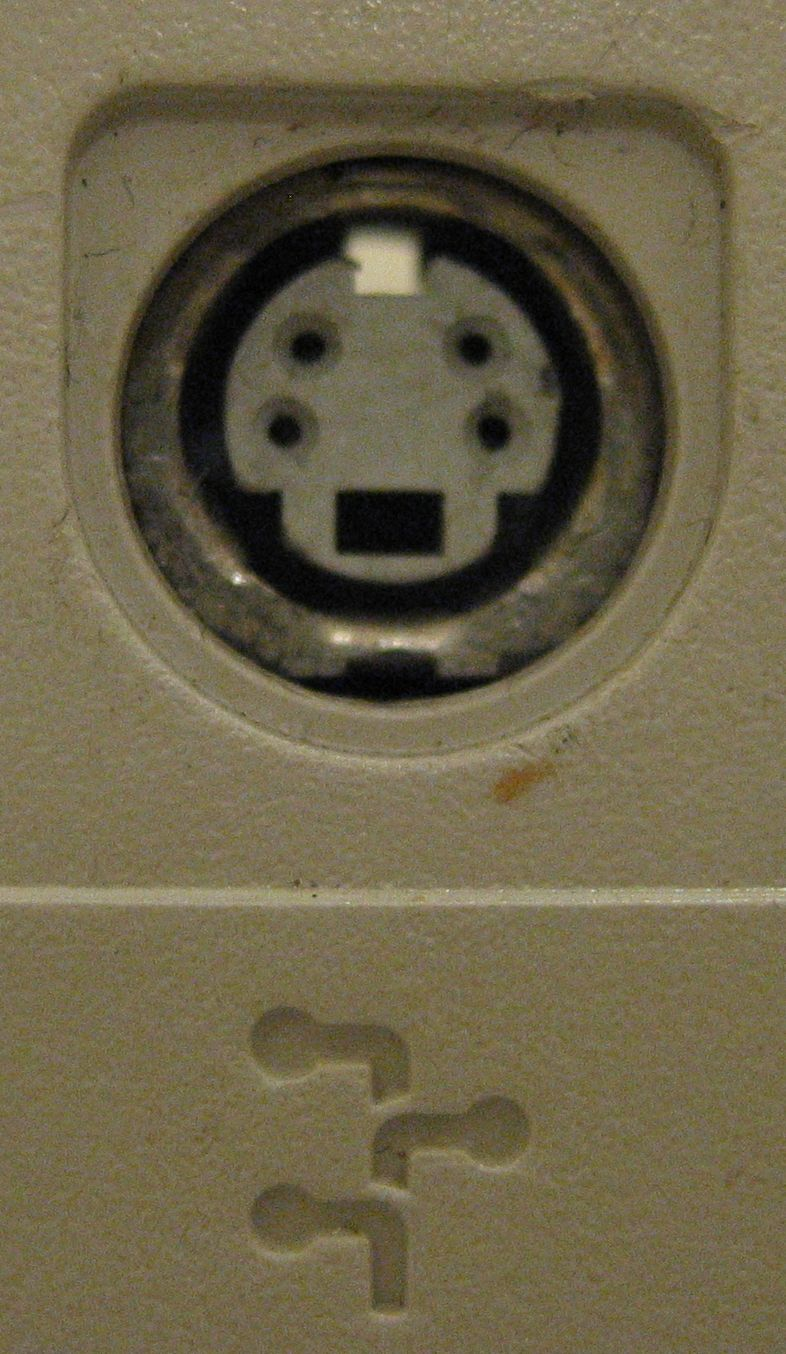 Mac LC keyboard port